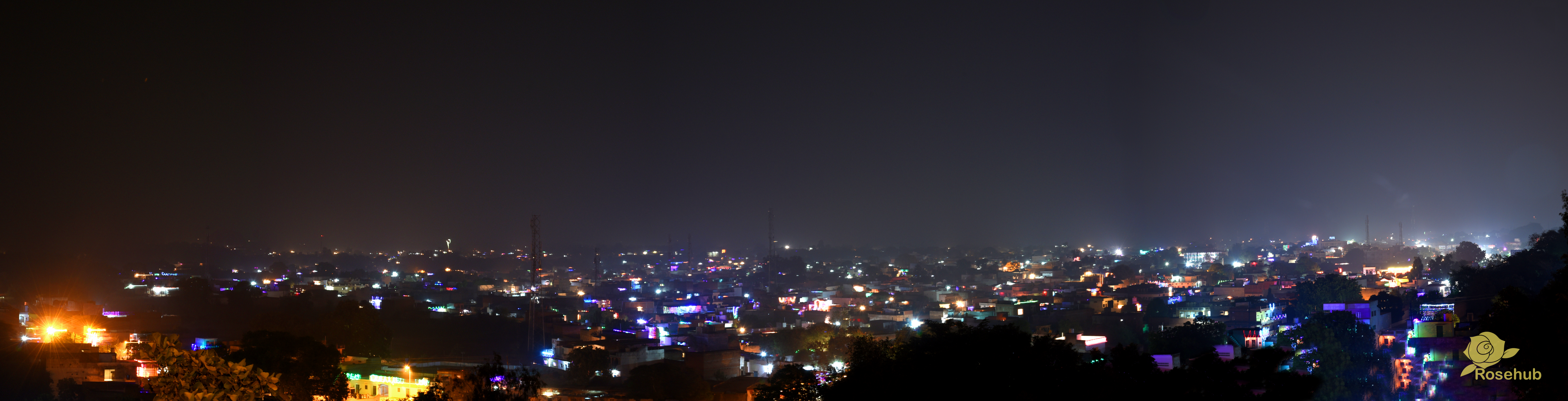 Chhatarpur during Diwali